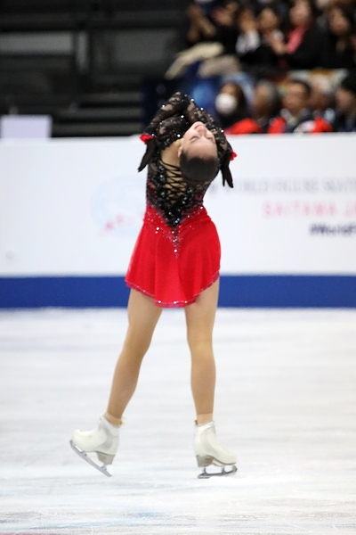 Alina Zagitova at the World Championships 2019 - Free program